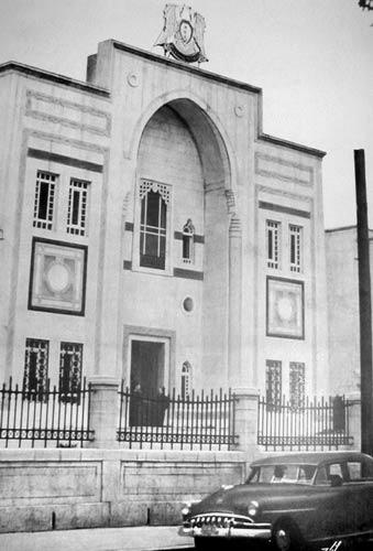 People's Council of Syria.